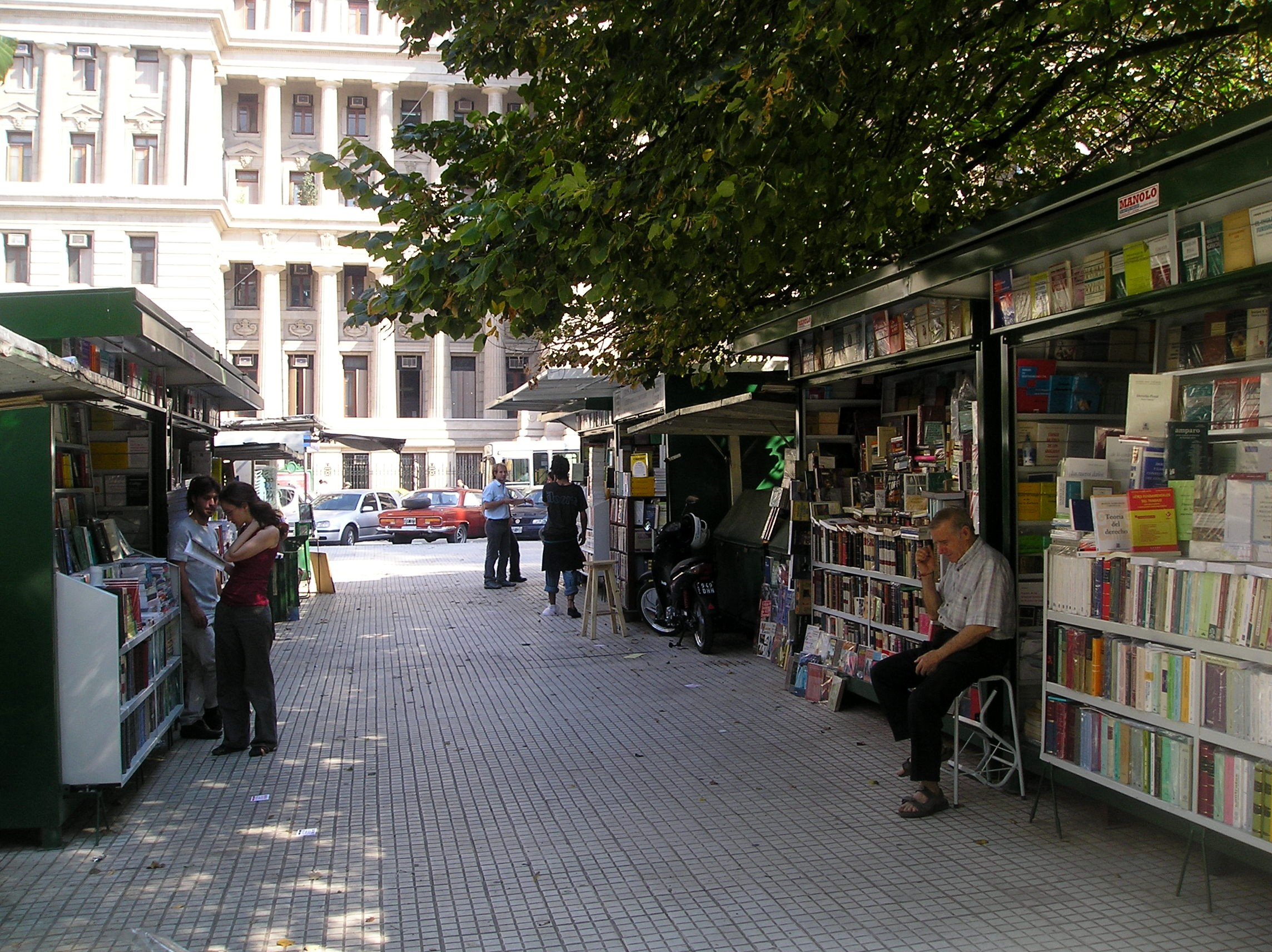 Lavalle Square, Buenos Aires, Argentina - Bookstores of "used law books".